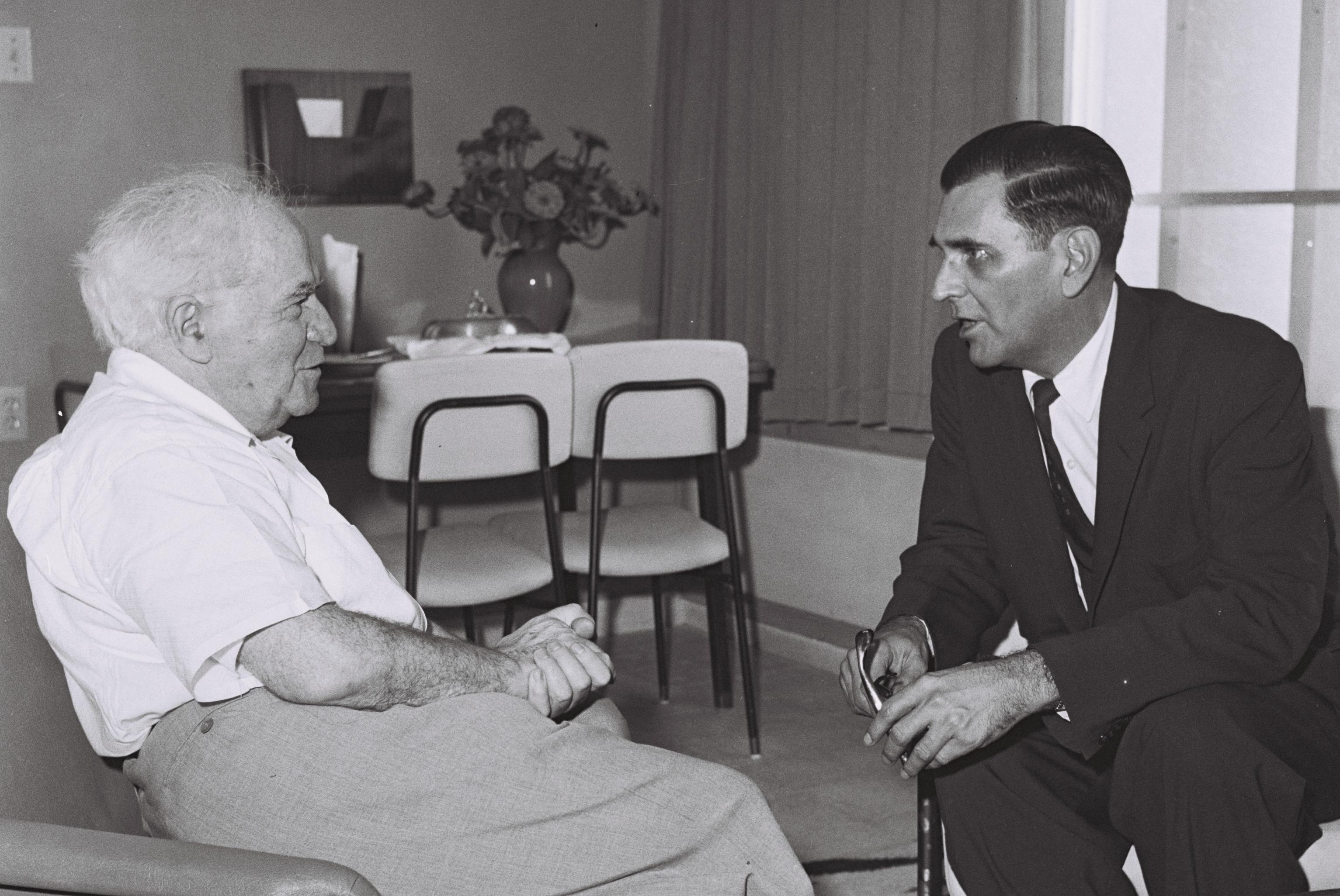 David Ben-Gurion with Puerto Rico Secretary of State, Roberto Sanches Vilella.